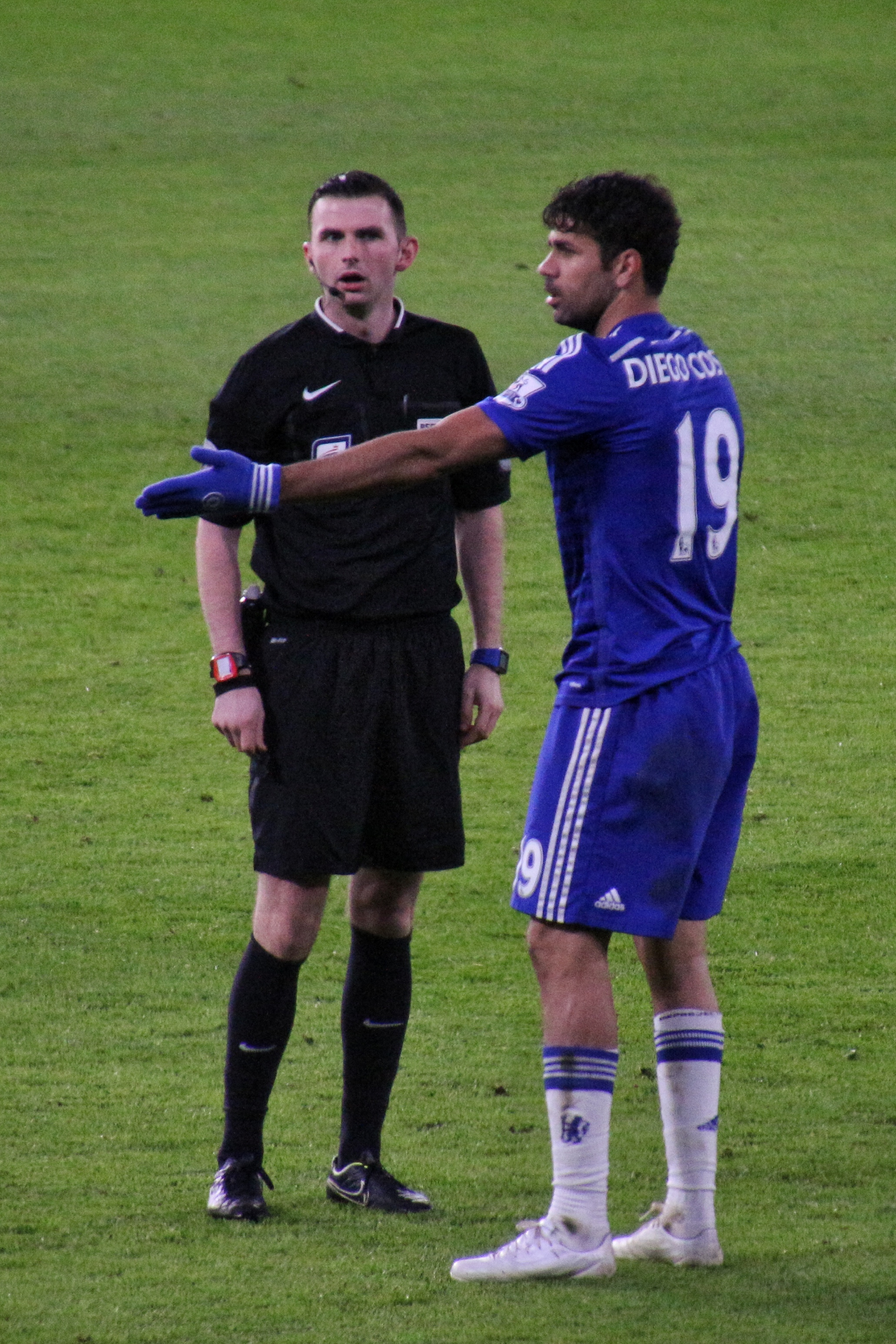 Chelsea 1 lLiverpool 0 (2-1 agg) Capital One Cup semi final 2nd leg On our way to Wembley!